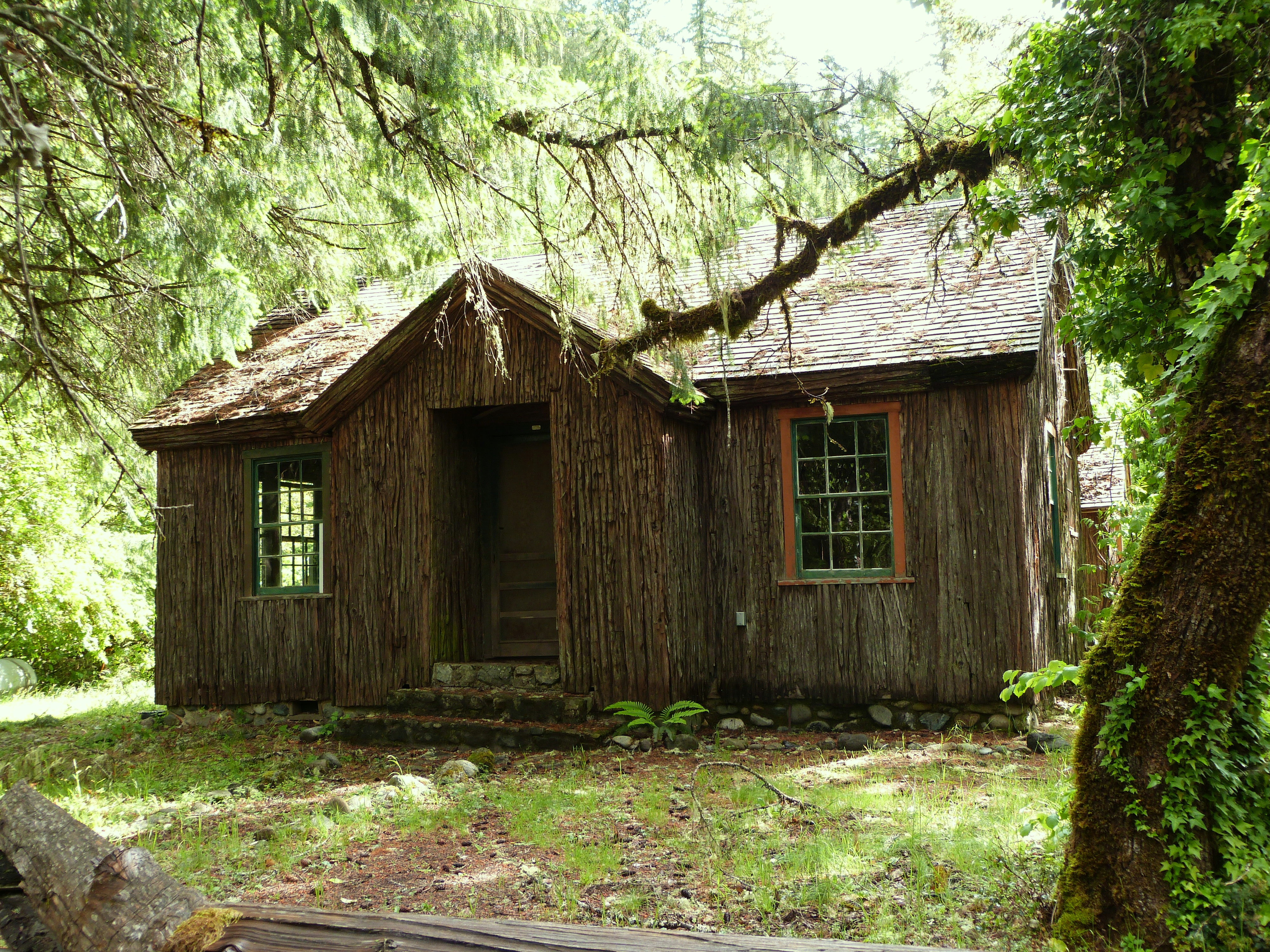 The historic Cedar Guard Station No. 1019 (built 1933), located on Oregon Route 46 in the Rogue River – Siskiyou National Forest near Cave Junction, Oregon, United States, is listed on the US National Register of Historic Places.